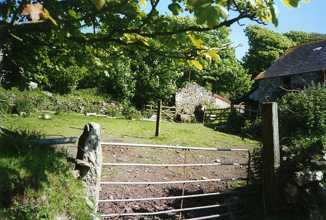 St Juliot: farm buildings at Trevilla. A public footpath runs through the farm property. By a bank on the western side of the farm, probably an old leat, the remains of a waterwheel were visible in 1997